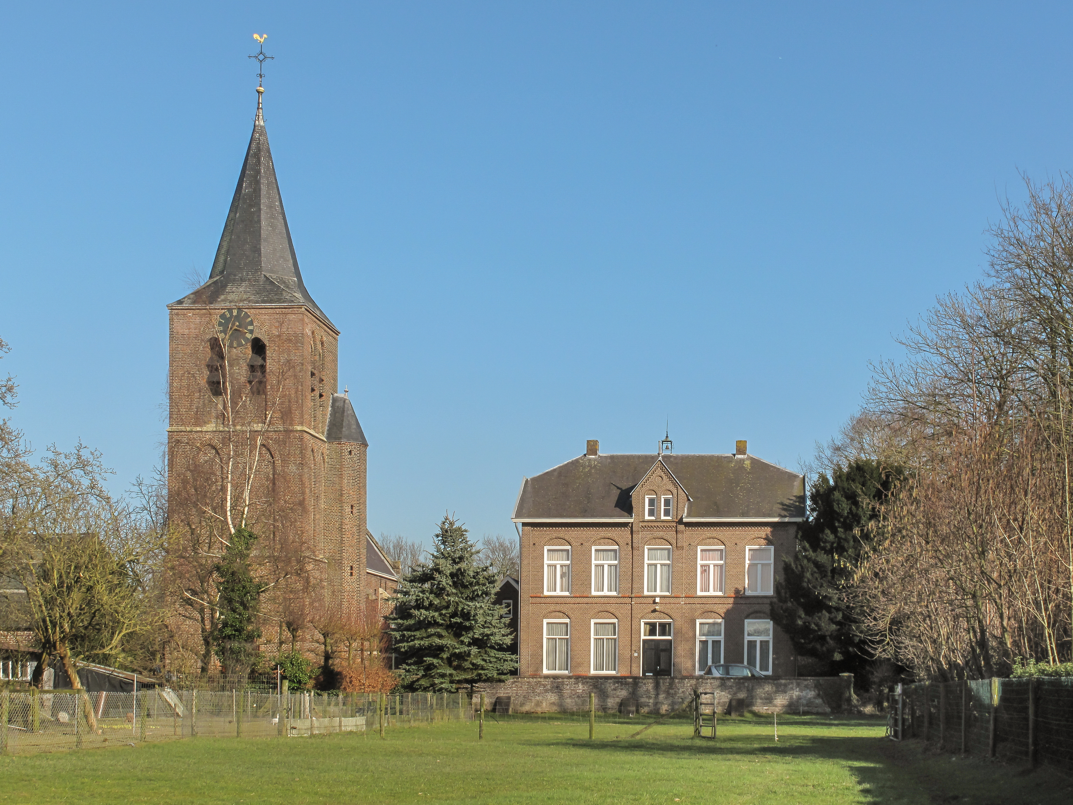 Linden, church: de Sint Lambertuskerk